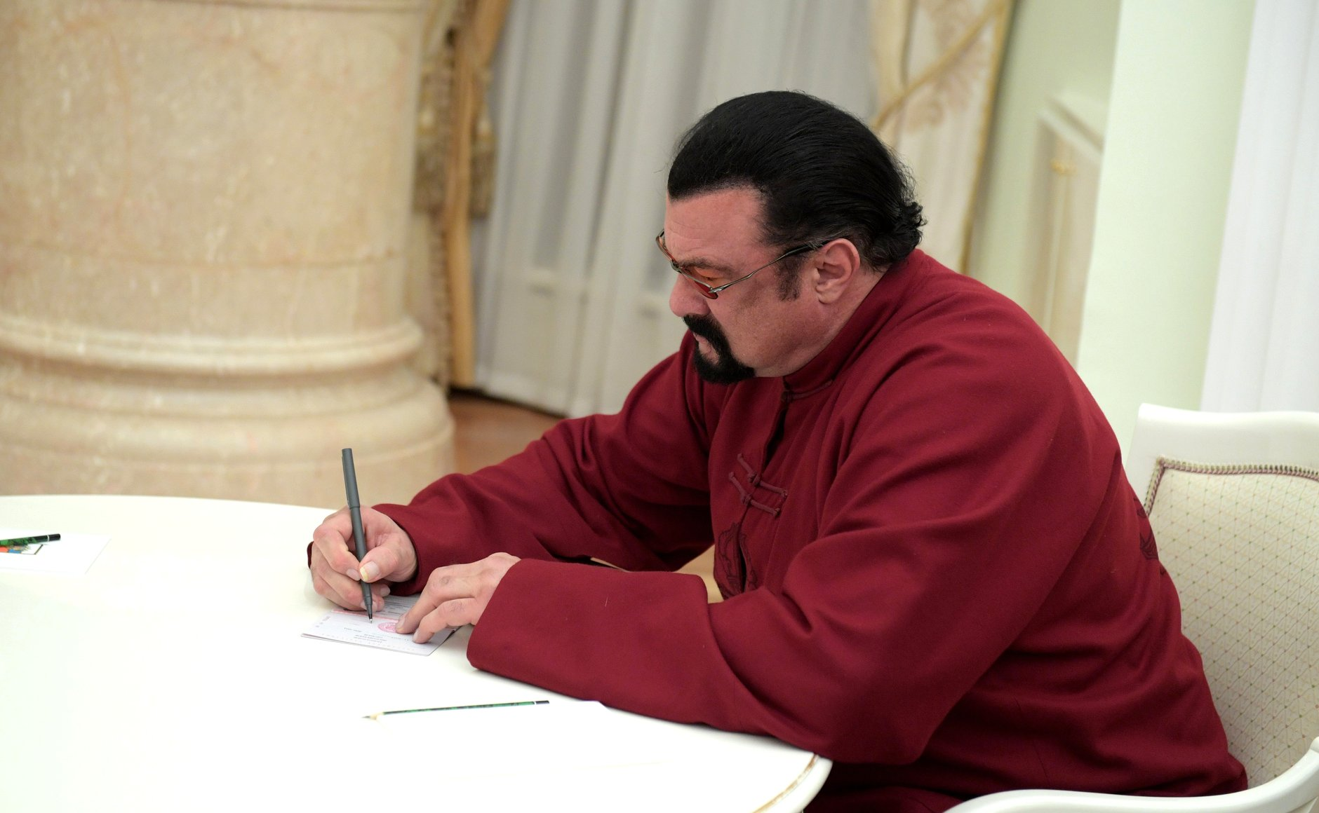 Vladimir Putin met with US actor Steven Seagal. The President presented the actor with his new Russian passport and congratulated him on receiving Russian citizenship.